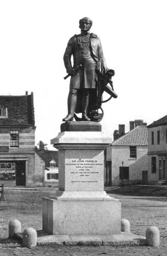 Image of Sir John Franklin statue in Spilsby, Lincolnshire, England. Photo circa 1880, unknown photographer. Original photo currently held by State Library of Tasmania. Image